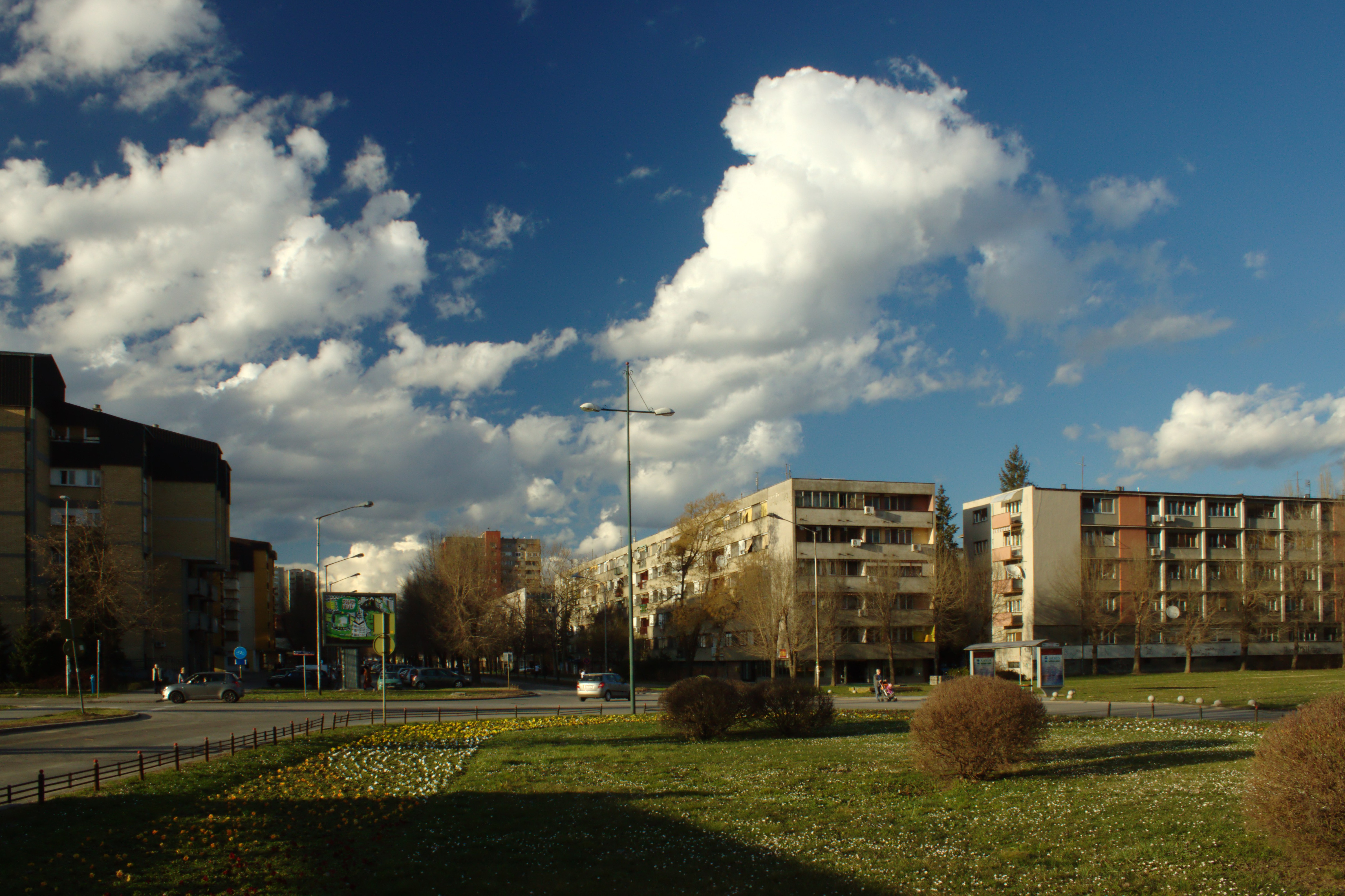 Bus terminus Liman-Štrand close to the Liman neighbourhood and Štrand beach in Novi Sad, Serbia